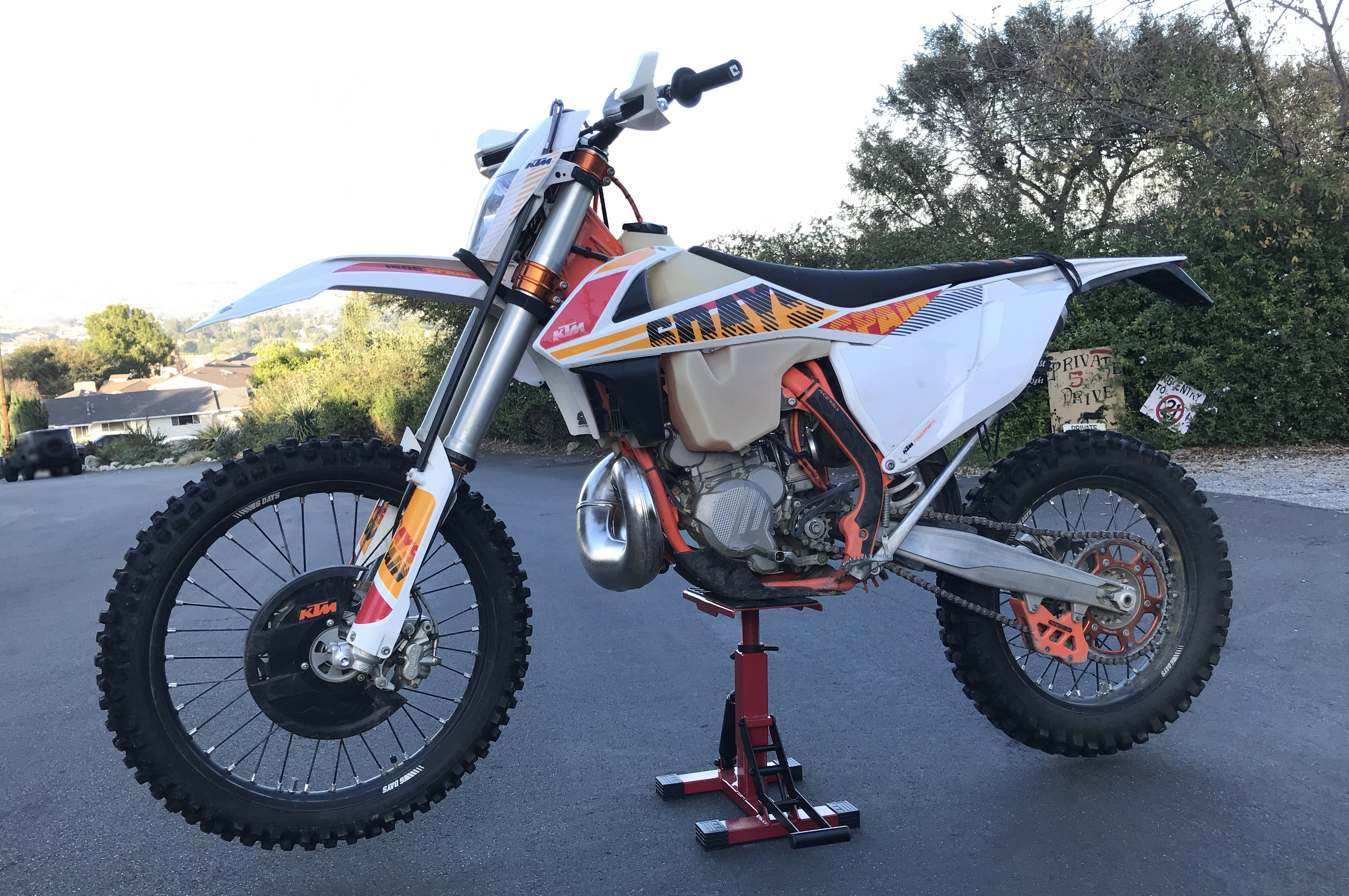 KTM 300 XC-W Six Days Spain Edition. A counter-balancer has been added to reduce motor vibration. The case is a new design featuring a new position for the starter motor. A Mikuni carb replaced the Keihin carburetor. Suspension changed to WP Xplor forks and shock.